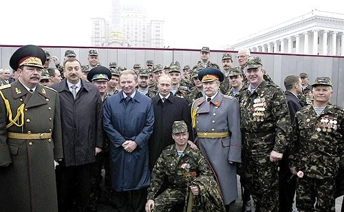 The celebration's in honor of the 60th Anniversary of the Liberation of Ukraine.